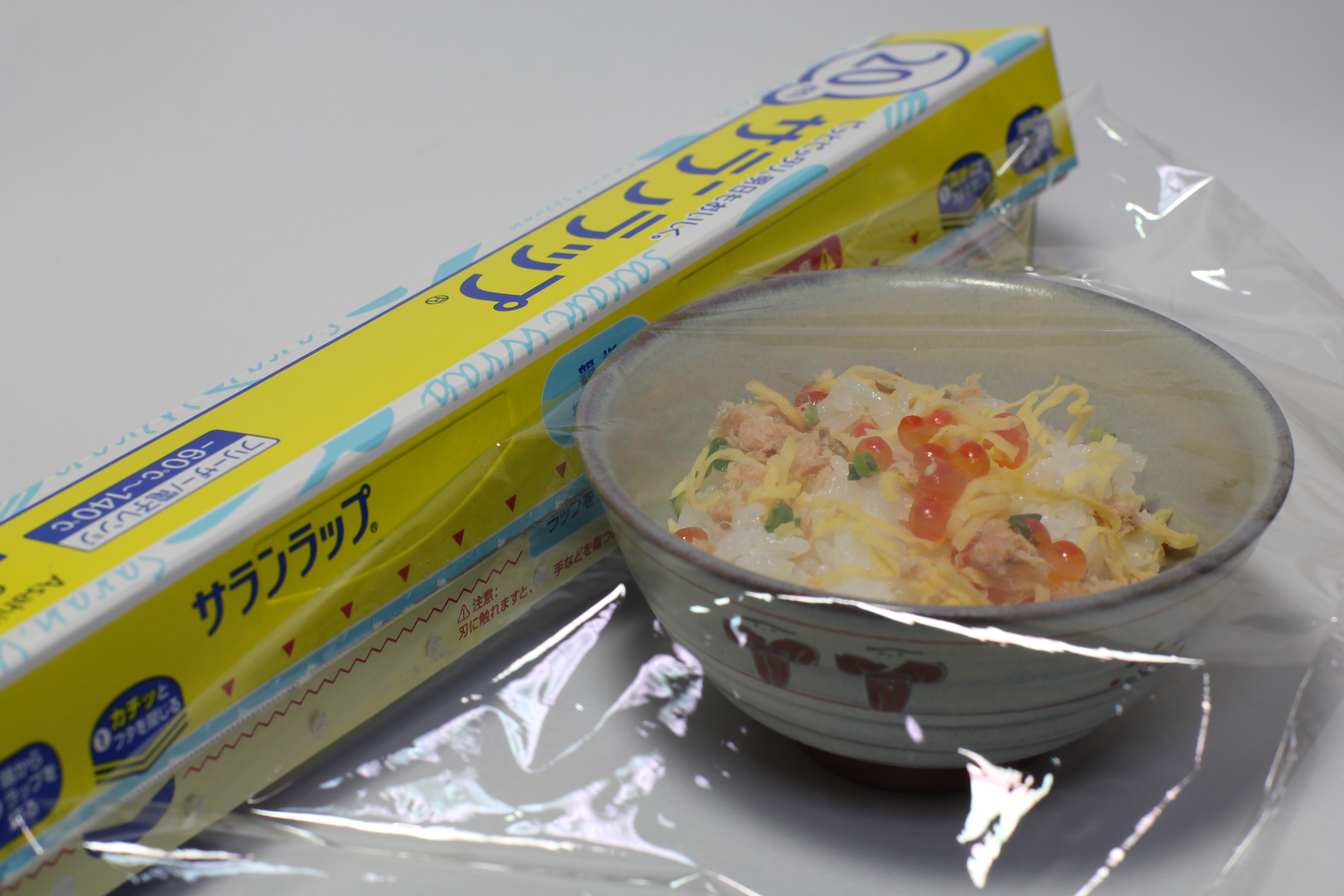 Saran Wrap which a plastic wrap for foods manufacutured by Asahi Kasei Corporation